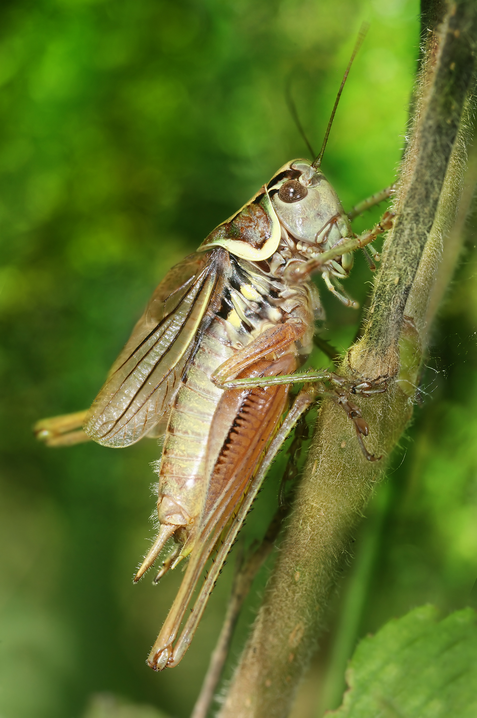 Description:Roesel's bush-cricket Metrioptera roeseli is a European bush-cricket, named after August Johann Rösel von Rosenhof, a German entomologist. Its song is very similar to that of Savi's Warbler. As shown a male.